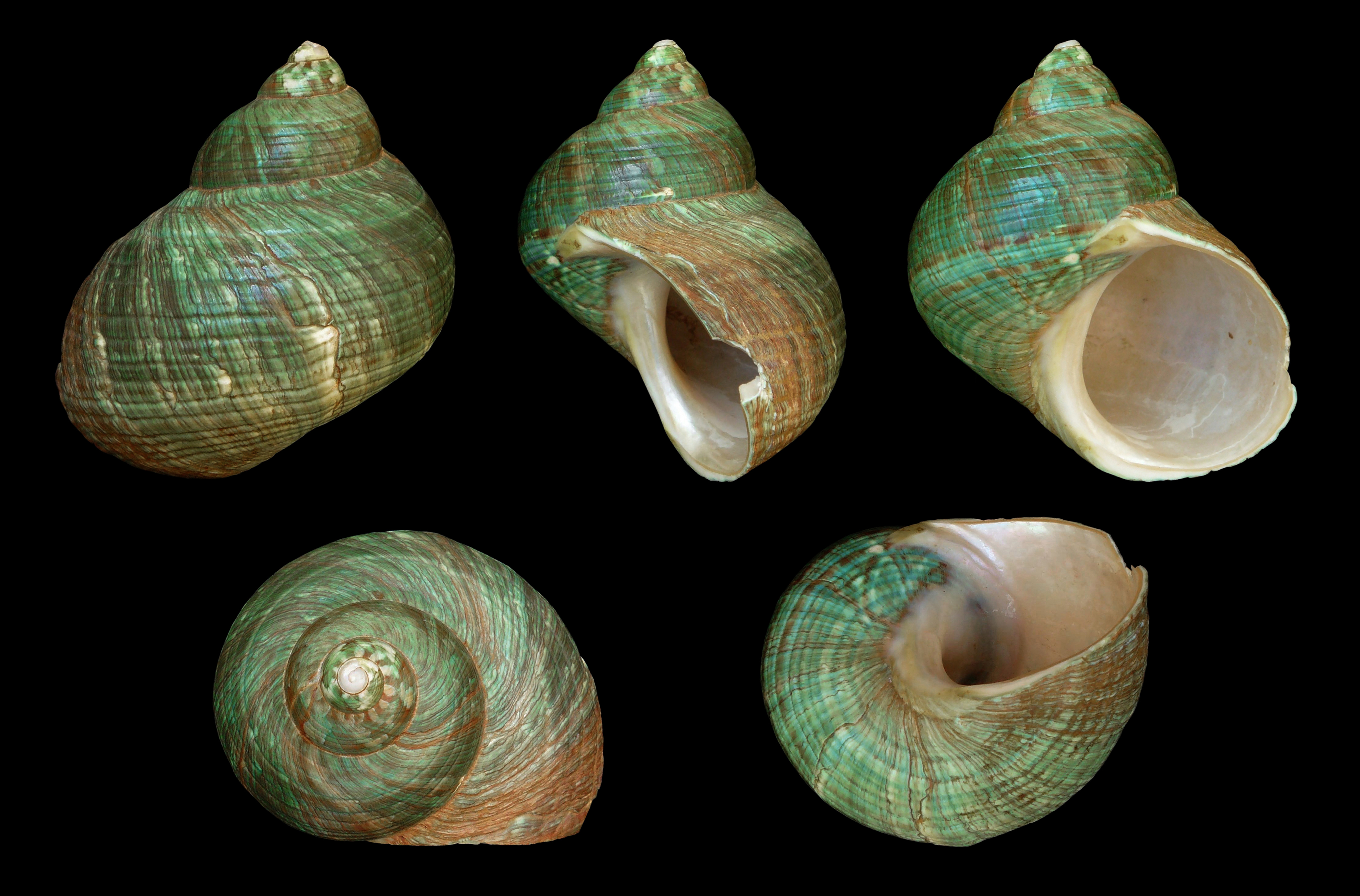 Giant Green Turbo; diameter 8.0 cm; Originating from the Indian Ocean; Shell of own collection, therefore not geocoded.